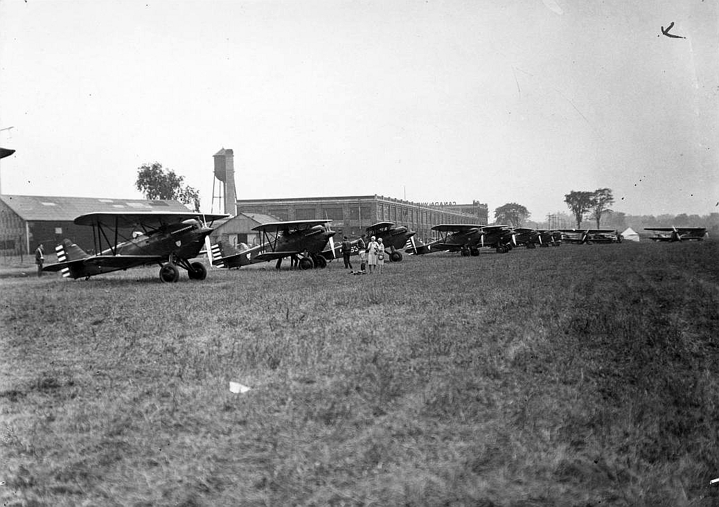 Early 'Curtis Hawk' planes at Toronto Flight Club, Leaside, Toronto, Canada